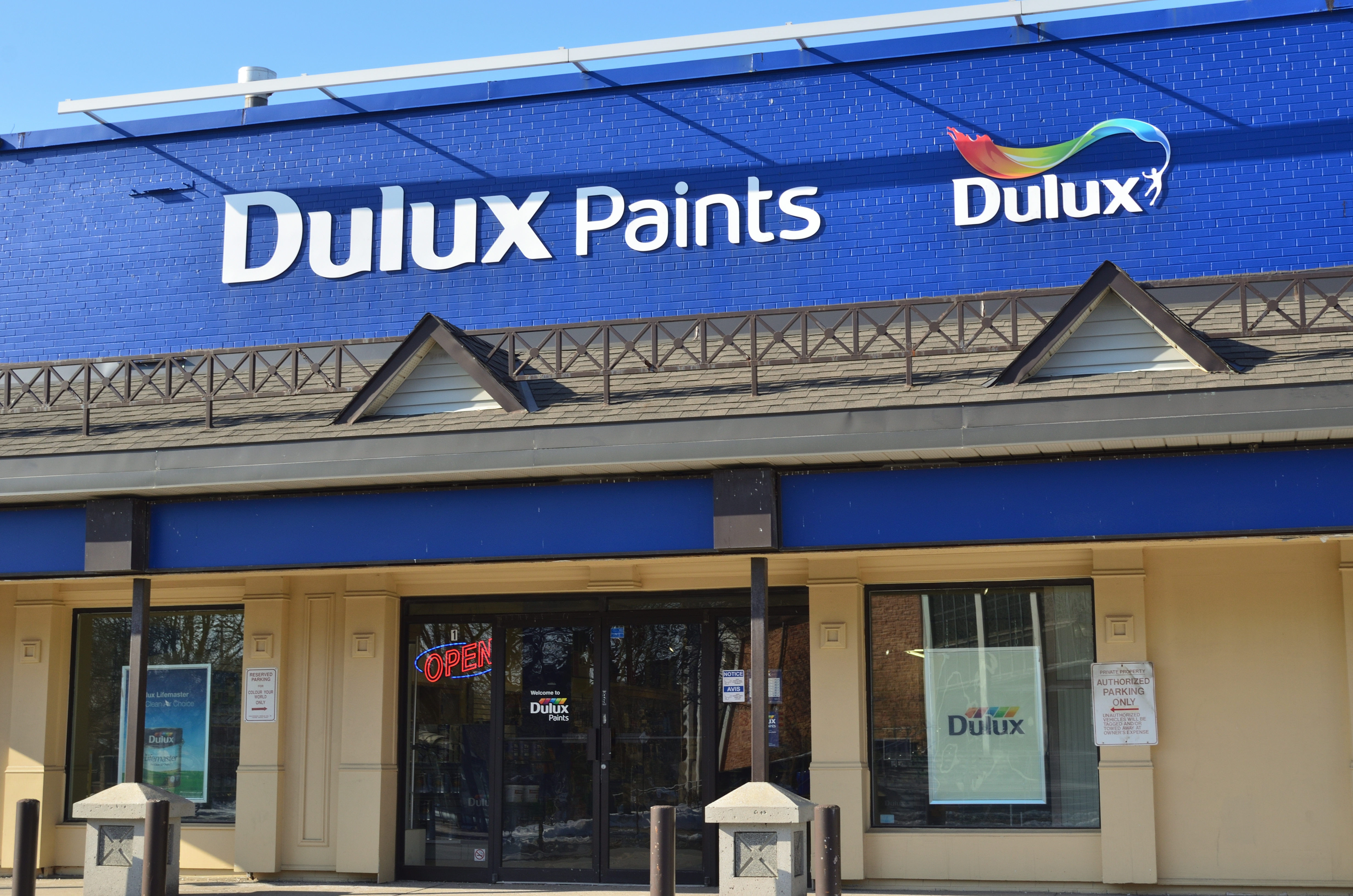 Dulux Paints - Address: 10288 Yonge St, Richmond Hill, ON L4C 3B8